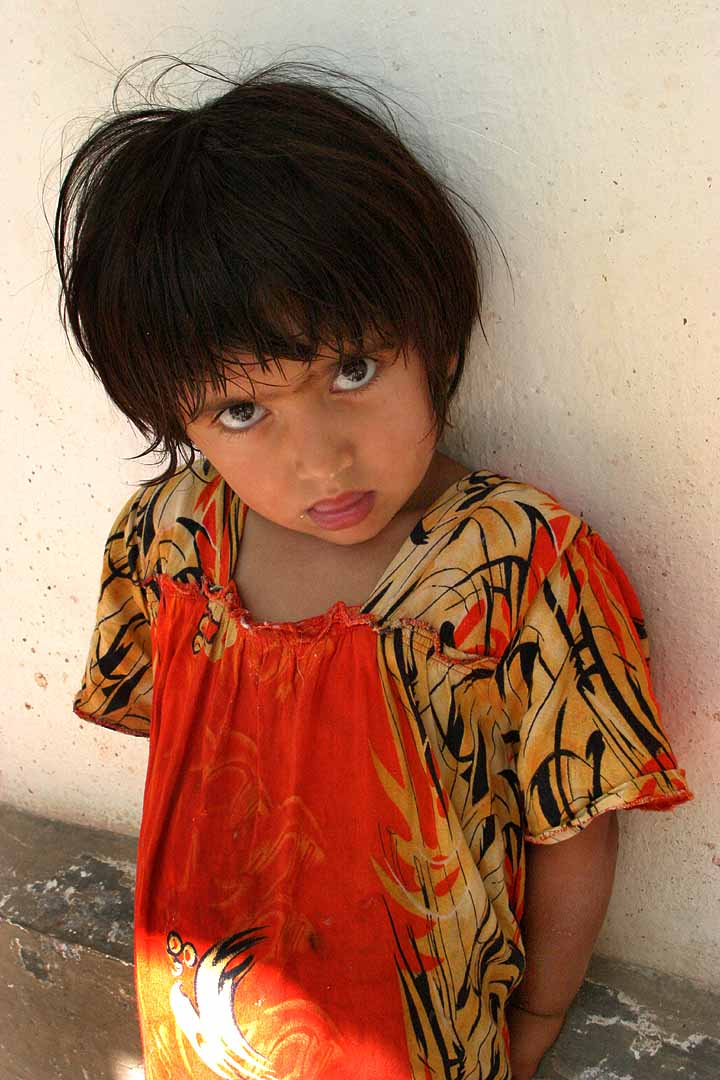 Little girl in Tajikistan.